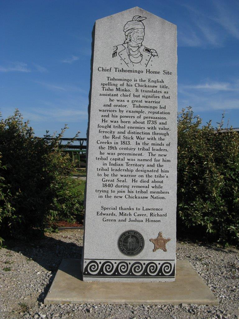 Chief Tishomingo Home Site Marker located on County Road 503, Lee County, Mississippi